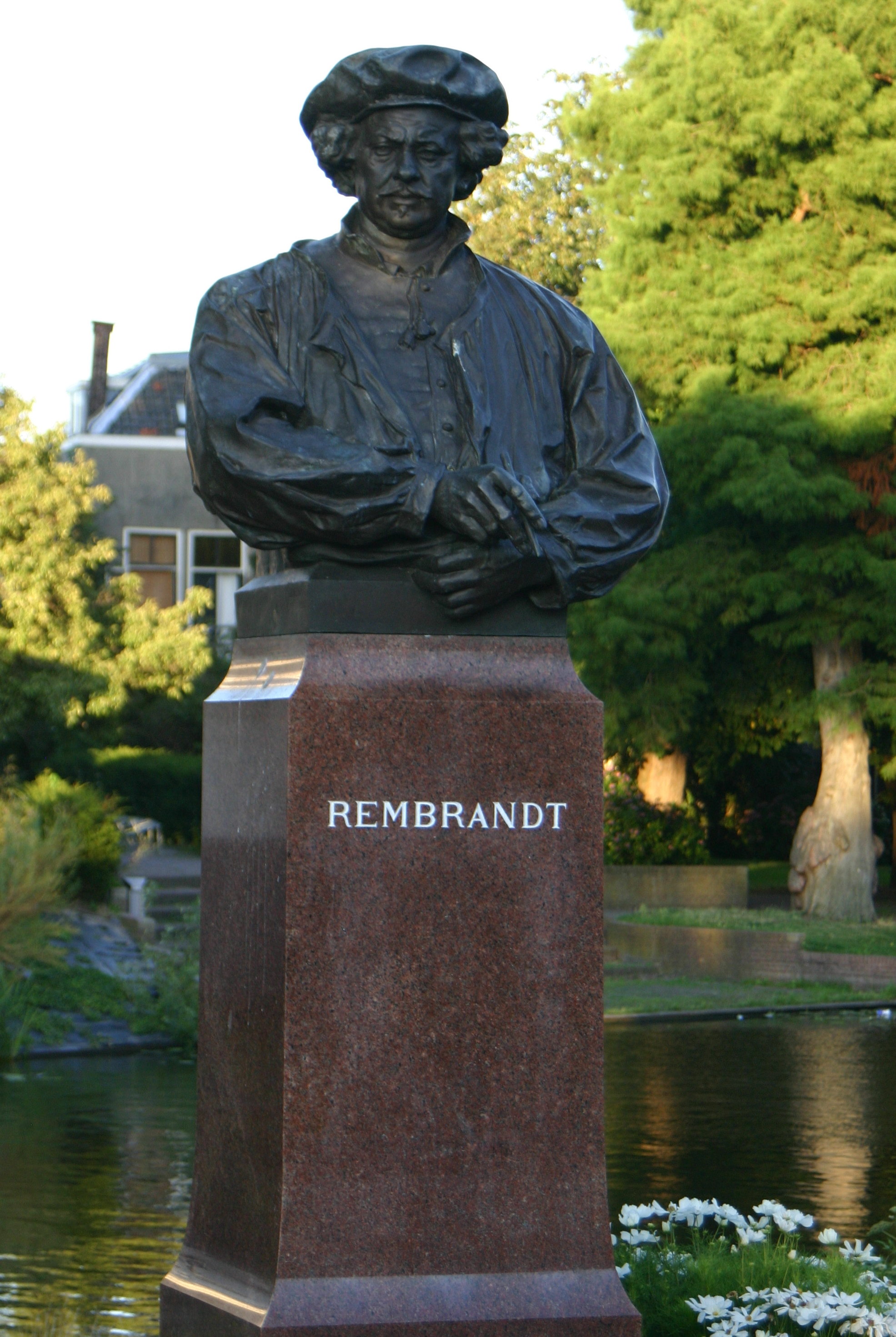 Statue of Rembrandt (1906) in Leiden, Witte Singel by Toon Dupuis